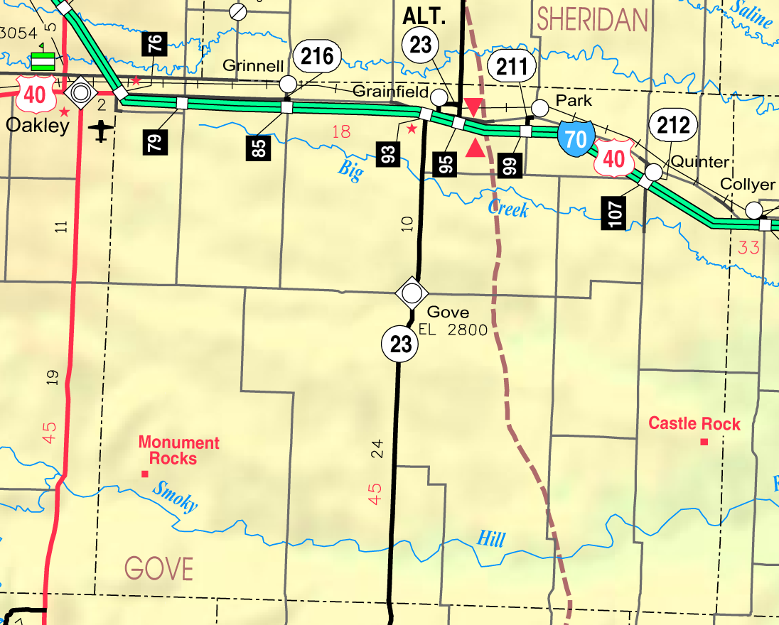 This map of Gove County, Kansas, USA, is copied at a resolution of 300 pixels/inch from the original PDF file.